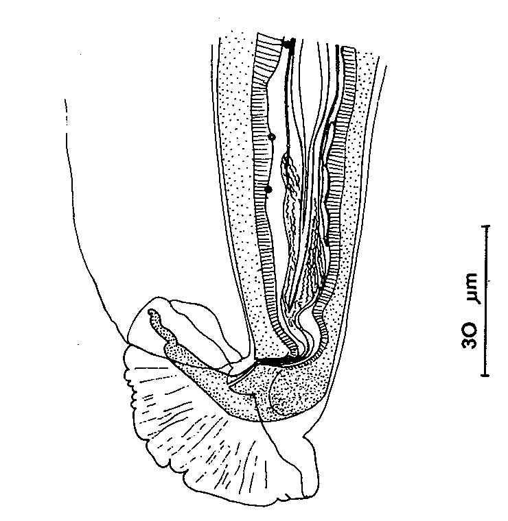 Capillaria myoxinitelae (Diesing, 1851) (Nematoda, Capillariidae), extremity of male, lateral view. Parasite of Eliomys quercinus. Current combination: Aonchoteca myoxinitelae Redrawn from article: Justine, J.-L., Ferté, H. & Bain, O. 1987: Trois Capillaria (Nematoda) de l'intestin du lérot en France. Rapports avec un Capillaria de l'estomac du sanglier. Bulletin du Muséum National d'Histoire Naturelle, 4ème Série, 9 (A), 579-604. Original caption: B, Capillaria myoxinitelae mâle, de lérot (Eliomys quercinus), extrémité postérieure, vue latérale (pores de la bande bacillaire représentés)